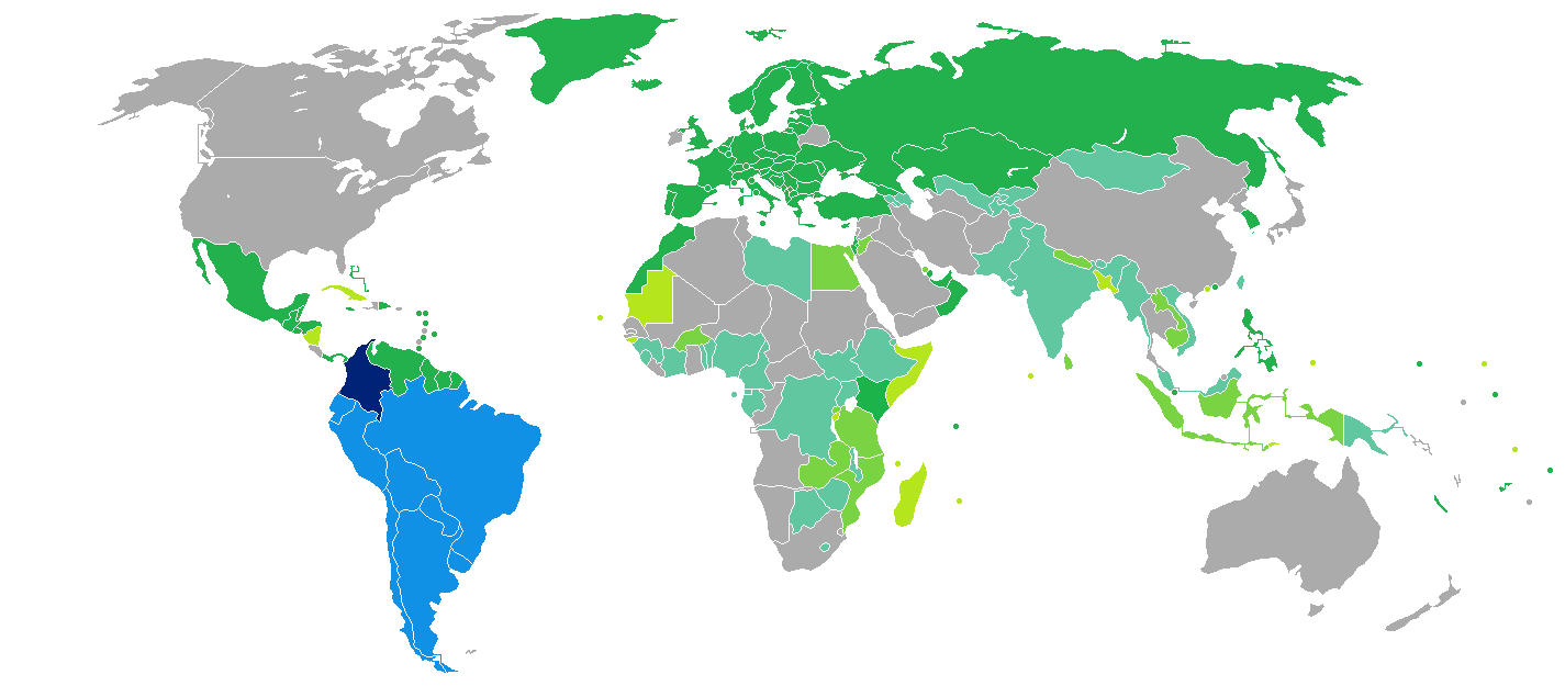 Visa requirements for Colombian citizens Colombia ID card travel Visa free access Visa on arrival eVisa Visa available both on arrival or online Visa required